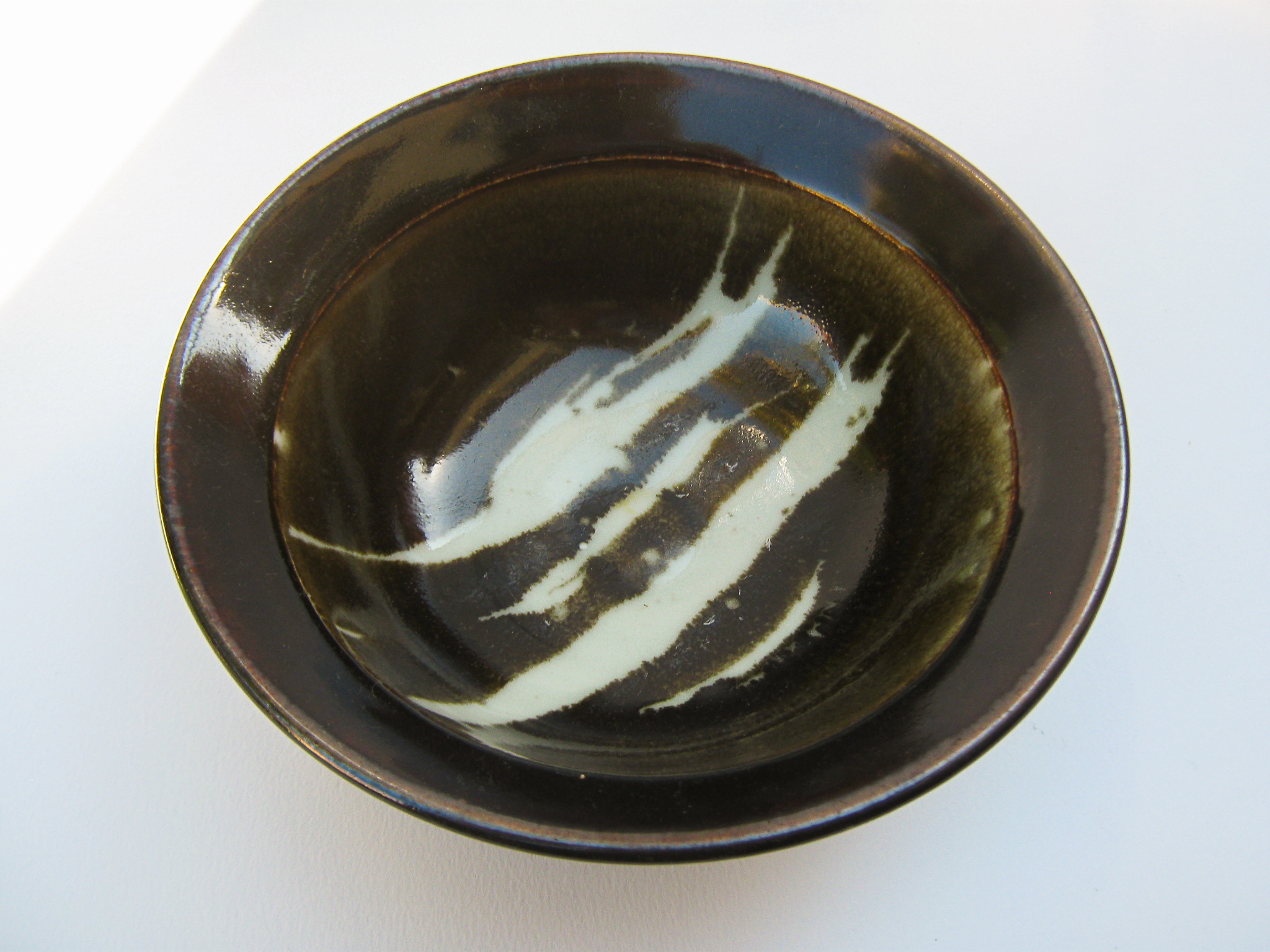 Iron-glazed bowl by Ian Sprague 1960s; photographed in a private collection at Elwood Victoria